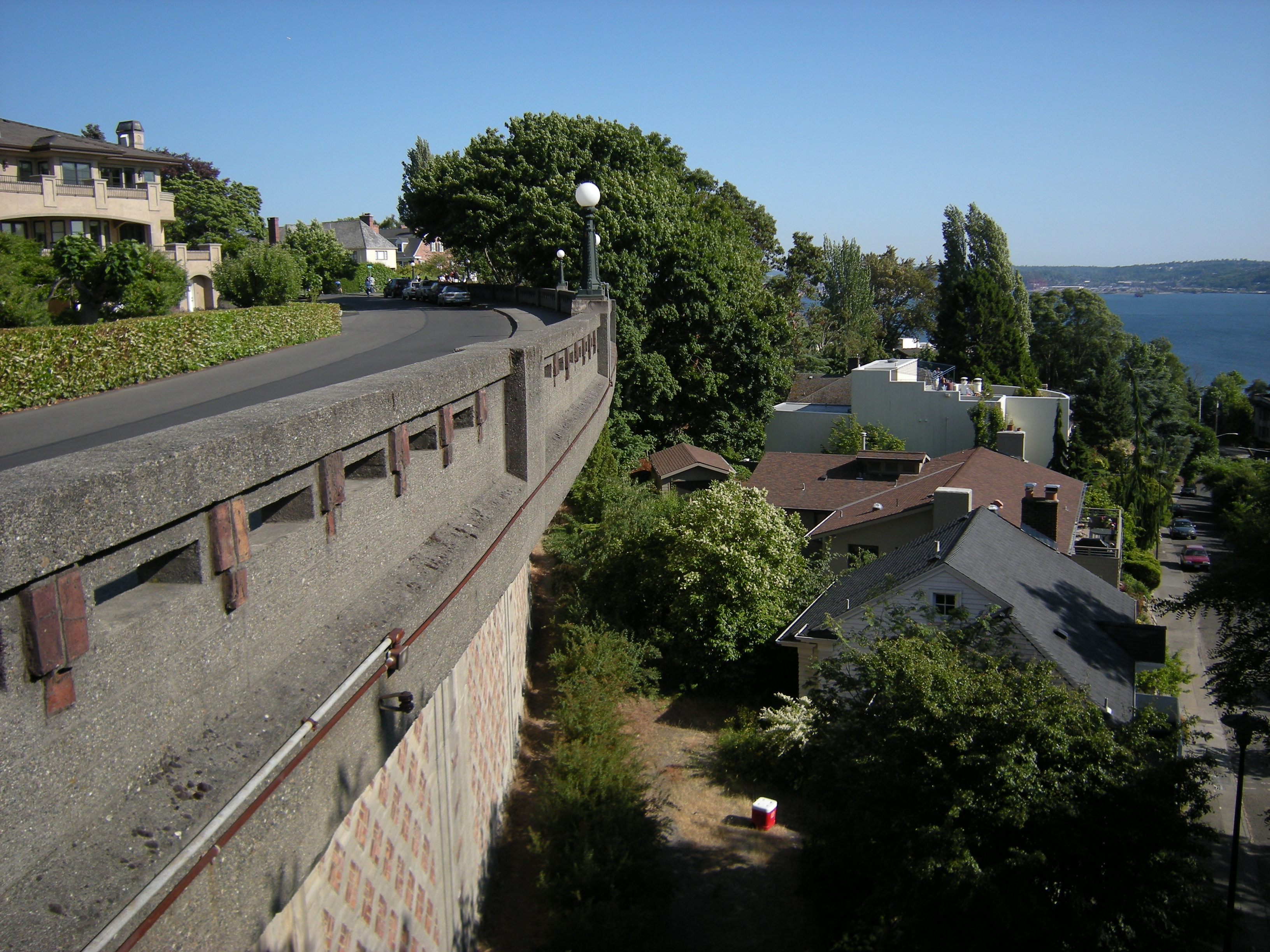 West Queen Anne Walls, Queen Anne Hill, Seattle, Washington. The walls have city landmark status.